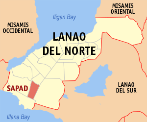 Map of the Lanao del Norte showing the location of Sapad